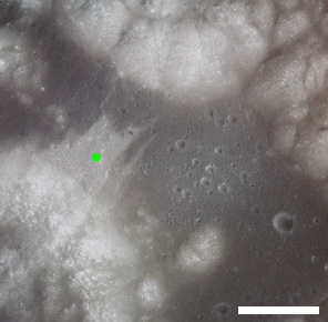 Green dot shows location of Lara, Taurus-Littrow Valley, on the moon. Scale bar at lower right is 5 km.